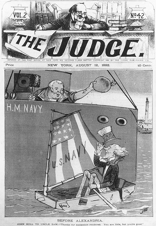 Front page of The Judge, 12 August 1882, featuring a cartoon by "JAW" concerning aid rendered by the American navy during the British bombardment of Alexandria in July 1882. Title: Before Alexandria. Caption: John Bull to Uncle Sam - "Thanks for assistance rendered. You are little, but you're good."